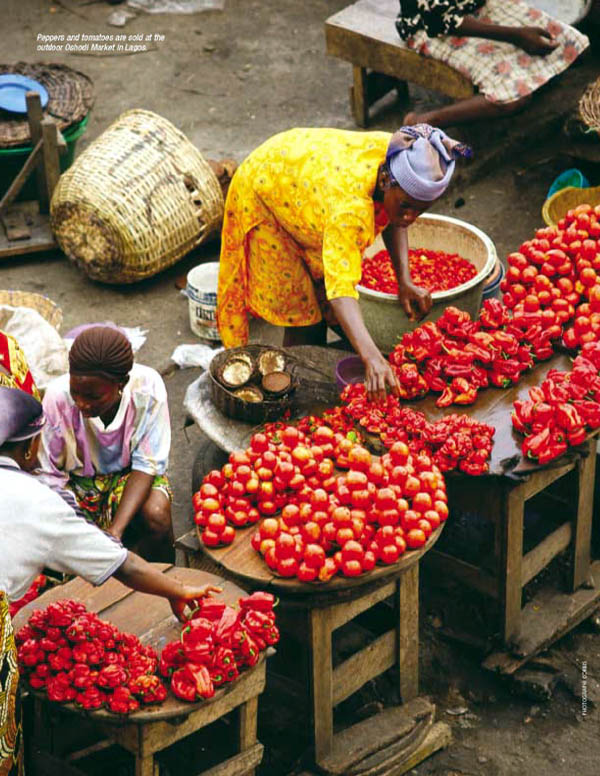 Lagos, Nigeria April 15, 2004 Peppers and tomatoes are sold at the outdoor Oshodi Market in Lagos. source